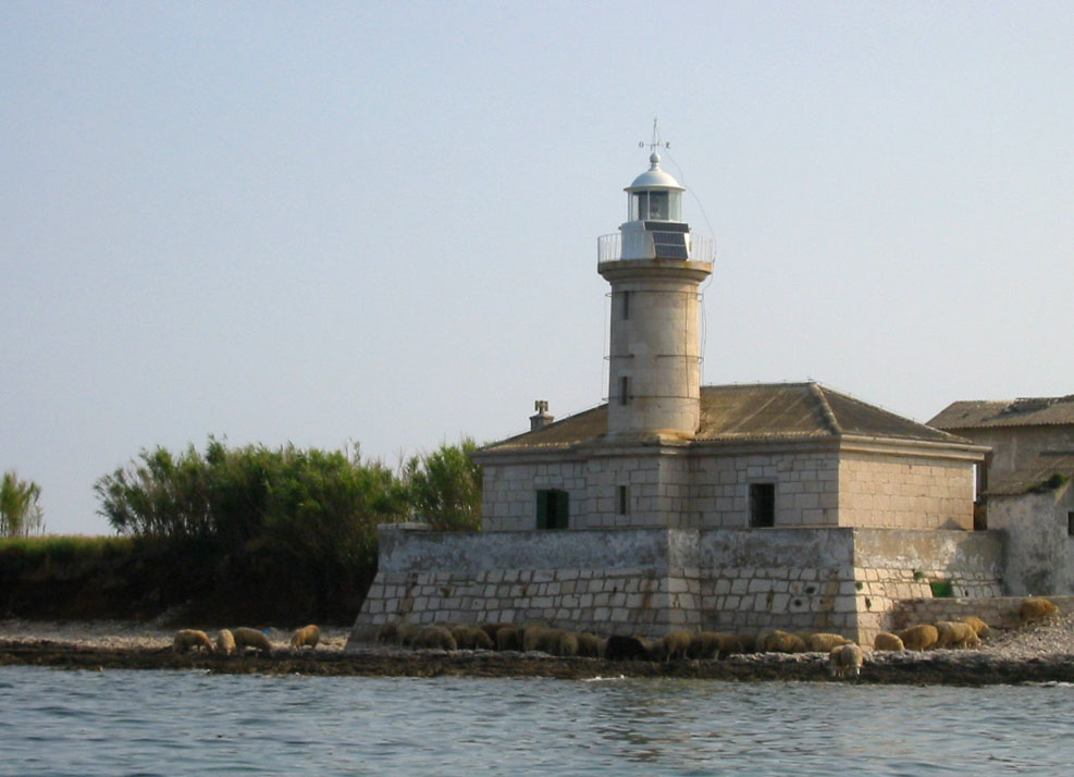 Lighthouse, Island of Lošinj, Croatia photo:Ziga 10:55, 16 April 2007 (UTC)